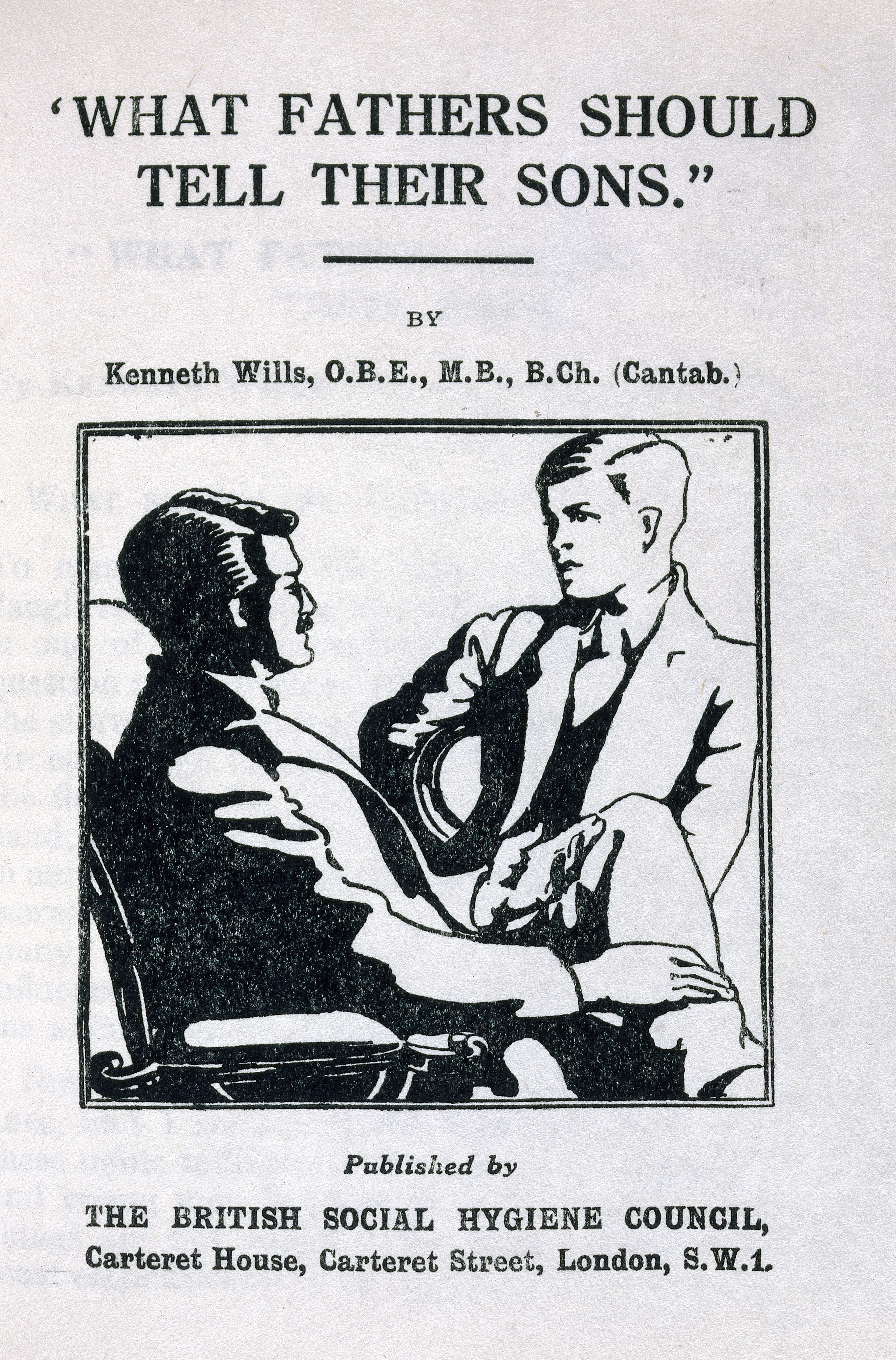 CMAC:SA/MWF/N.2/6 Medical Women's Federation Front page of second section, 'What fathers should tell their sons'. Black and white line drawing. published by, and copyright holder,'British Social Hygiene Council', London.Circa 1933. Archives & Manuscripts Keywords: cmac; cmac:sa/mwf/n.2/6; medical women's federation